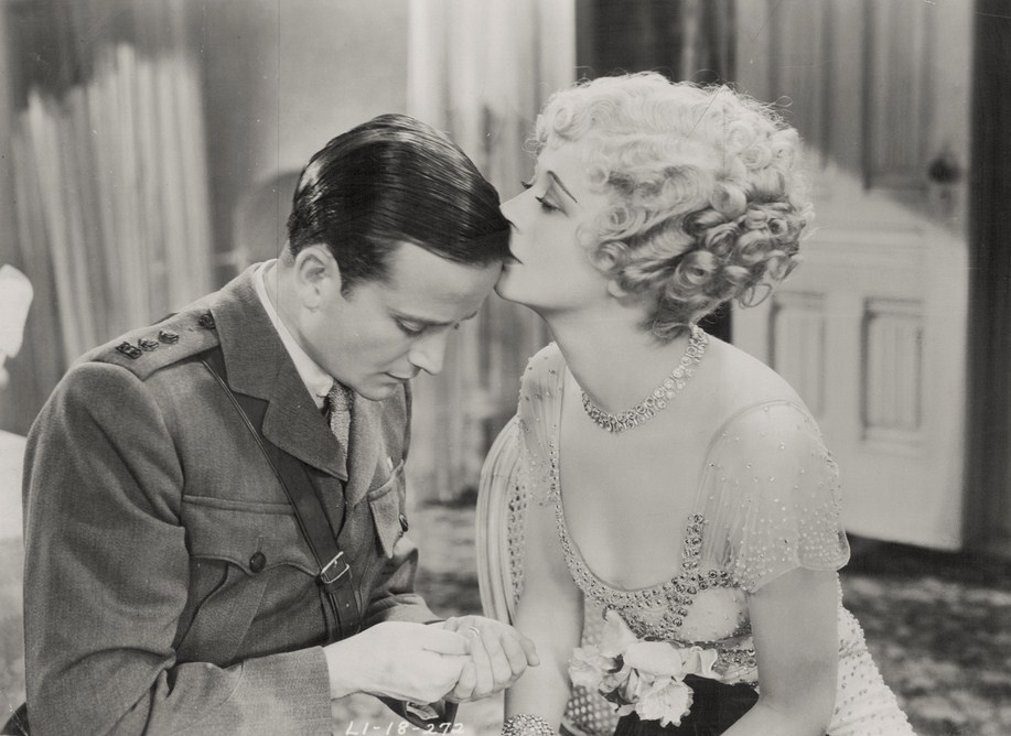 Frank Lawton and Ursula Jeans in Cavalcade (1933) - publicity still (cropped)